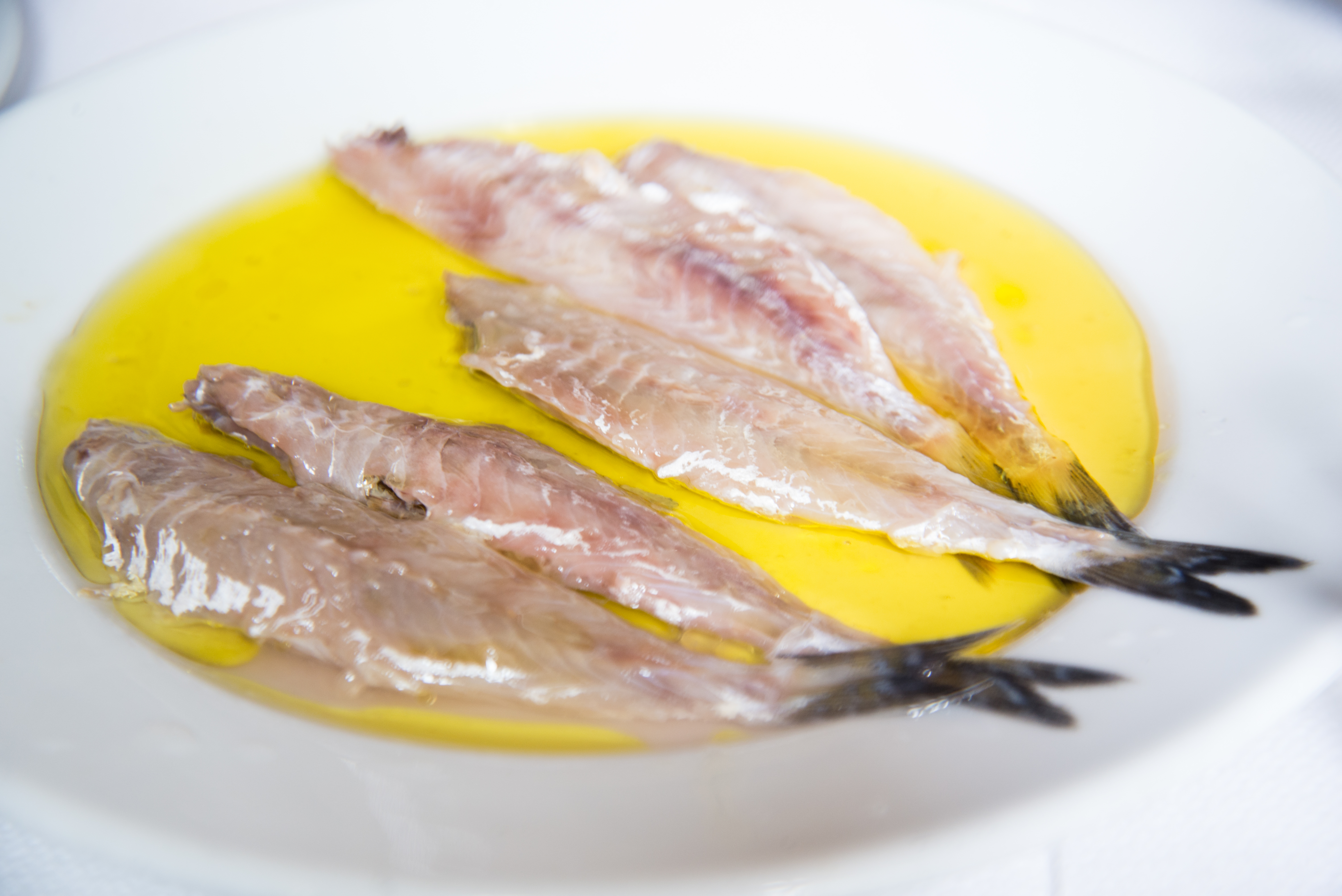 Μένουλα! Η διάσημη παστή σαρδέλα της Καρπάθου